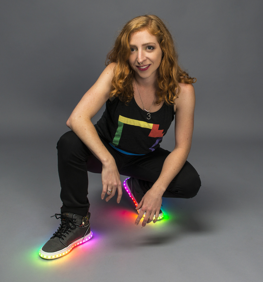 Photo of Becky Stern